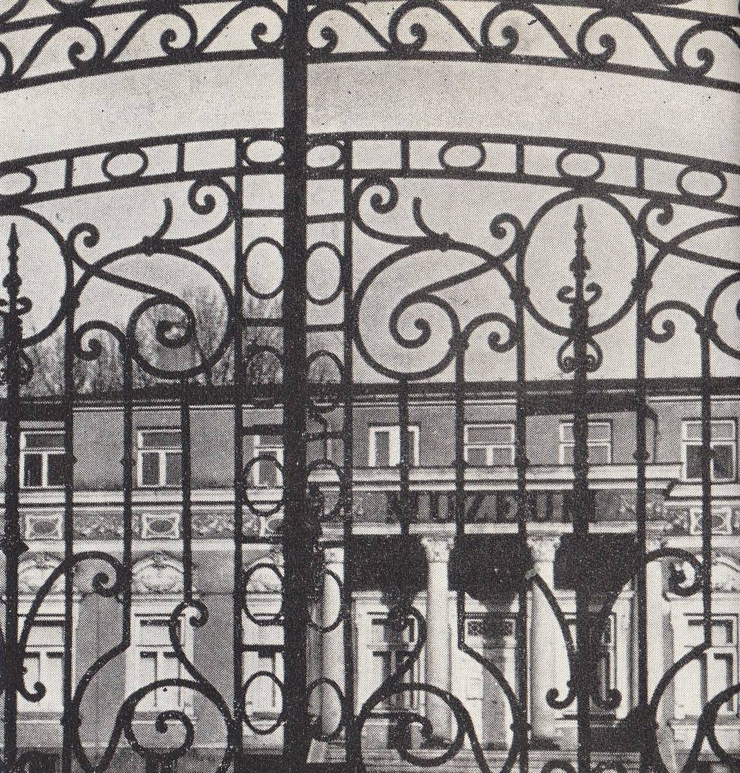 Former seat of Regional Musem in Radom